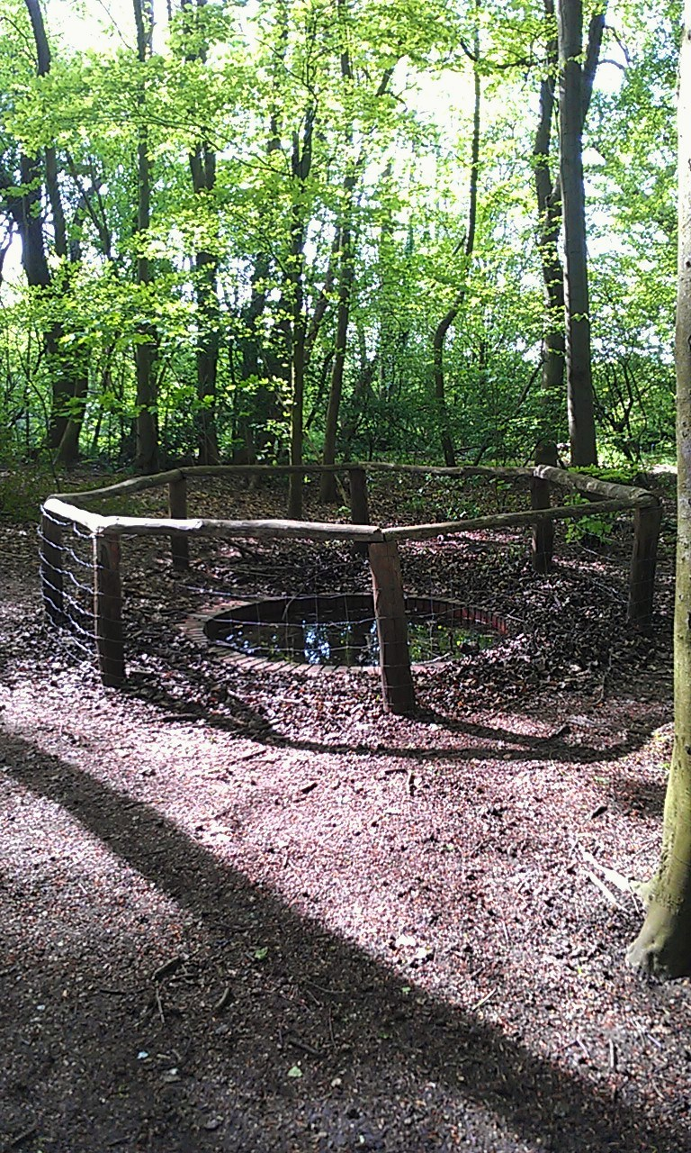 The Old Pheasant Drinking Pond at High Elms Country Park, constructed in the nineteenth or early twentieth century when the area was used as a shooting reserve.